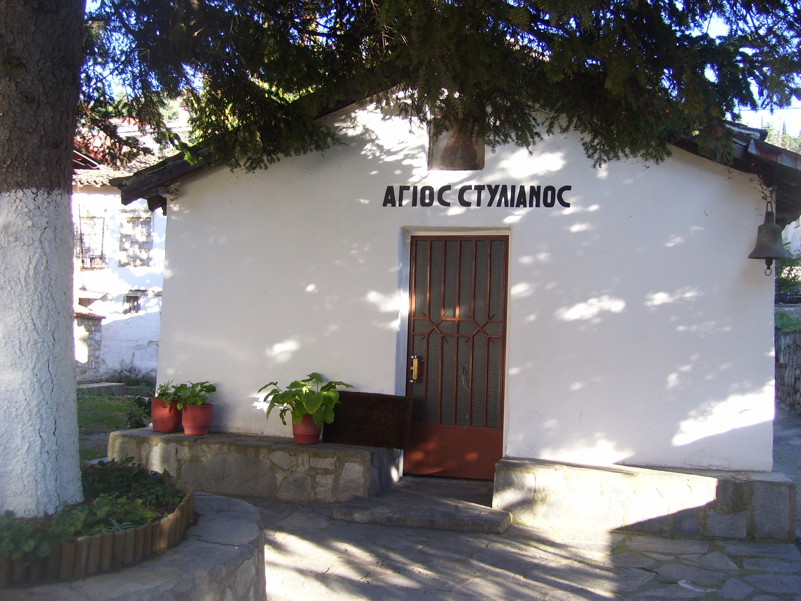 Saint Alypius and Saint Stylianos Church in Kostur, Kastoria, Greece